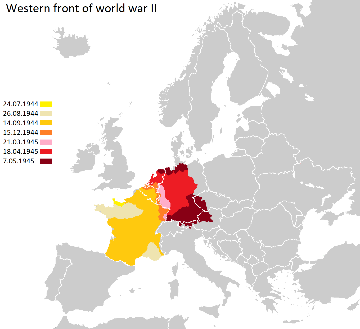 Wester front o WWII